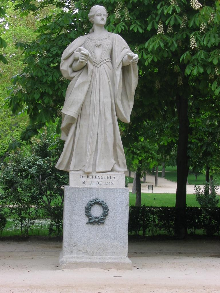 Depicted person: Berenguela of Castile